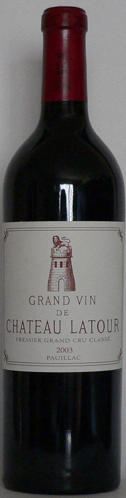 A bottle of Chateau Latour from the 2003 vintage. (Taken by TayDoi)